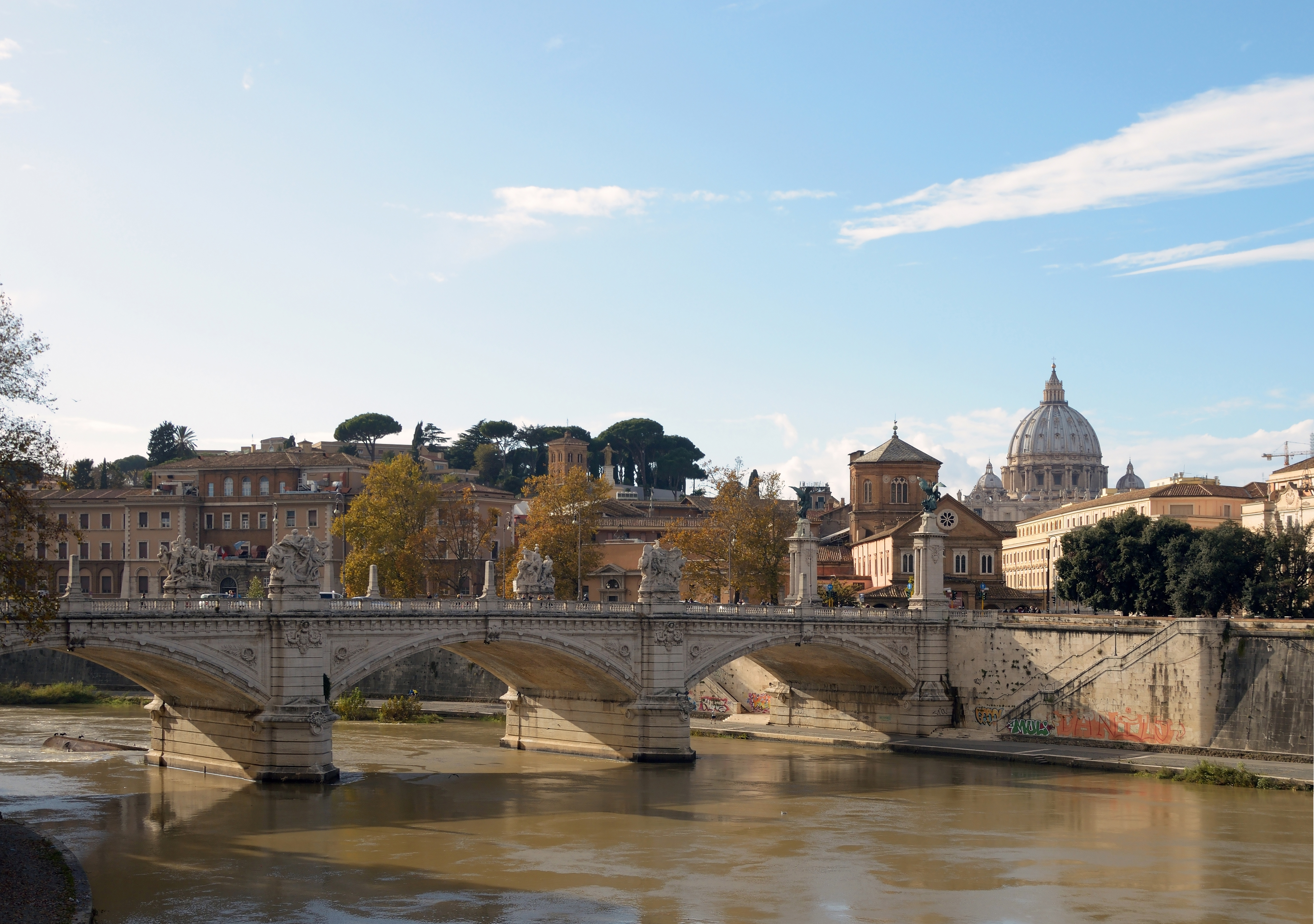 Bridge Vittorio Emanuele II and dome of San peter